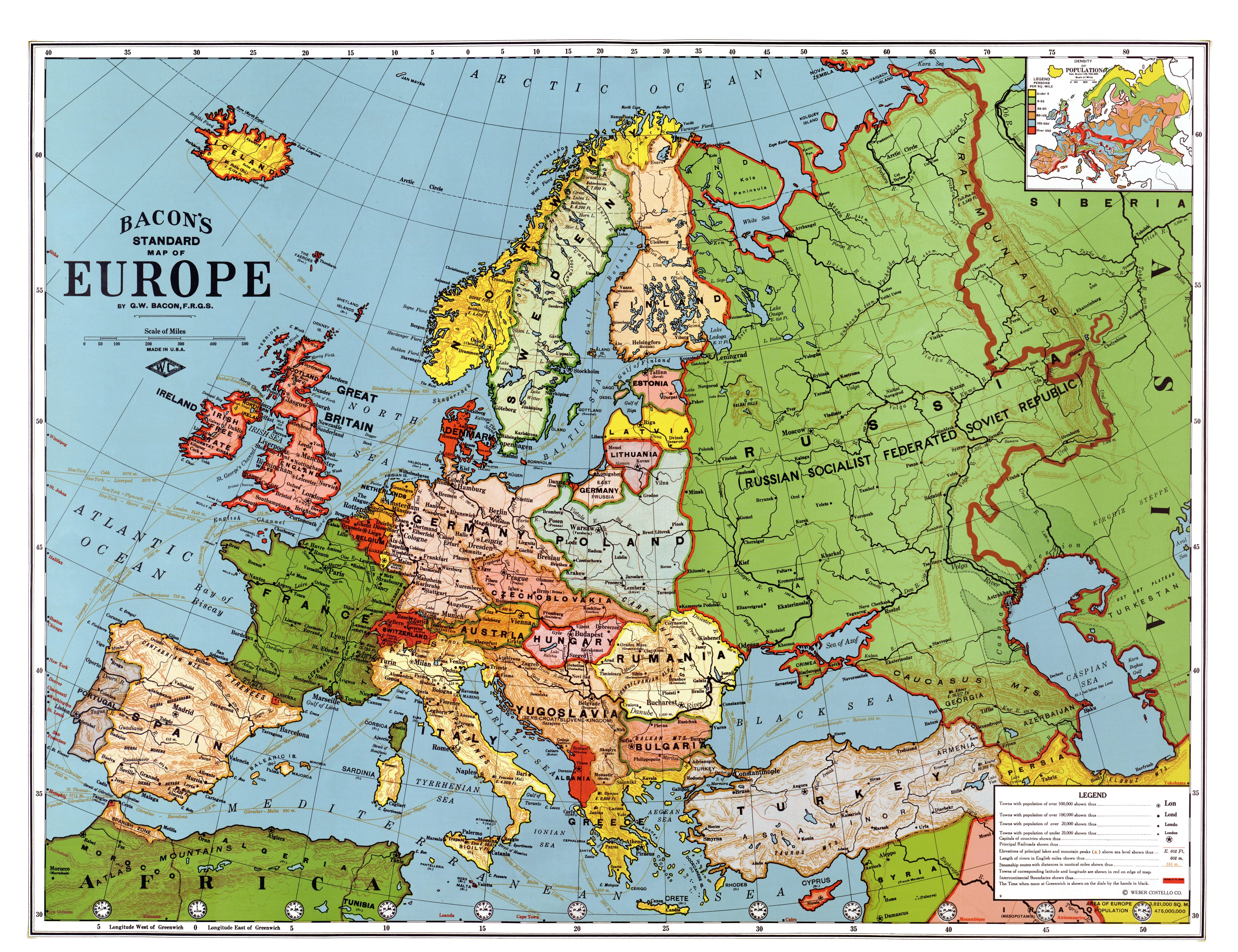 Bacon's standard map of Europe, 1923. Relief shown by hachures and spot heights. Shows steamship routes and time zones. Published by Weber Costello Co., 84 x 111 cm. Scale 1:5,500,000 (W 52°--E 80°/N 60°--N 30°).